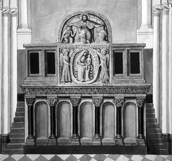 Drawing of the Westwork altar in the Basilica of Saint Servatius in Maastricht, the Netherlands. The drawing by amateur artist Philippe van Gulpen is probably a reconstruction of a situation that no longer existed at the time (mid 19th century), the four rectangular panels beside the "double relief" having disappeared decades earlier.